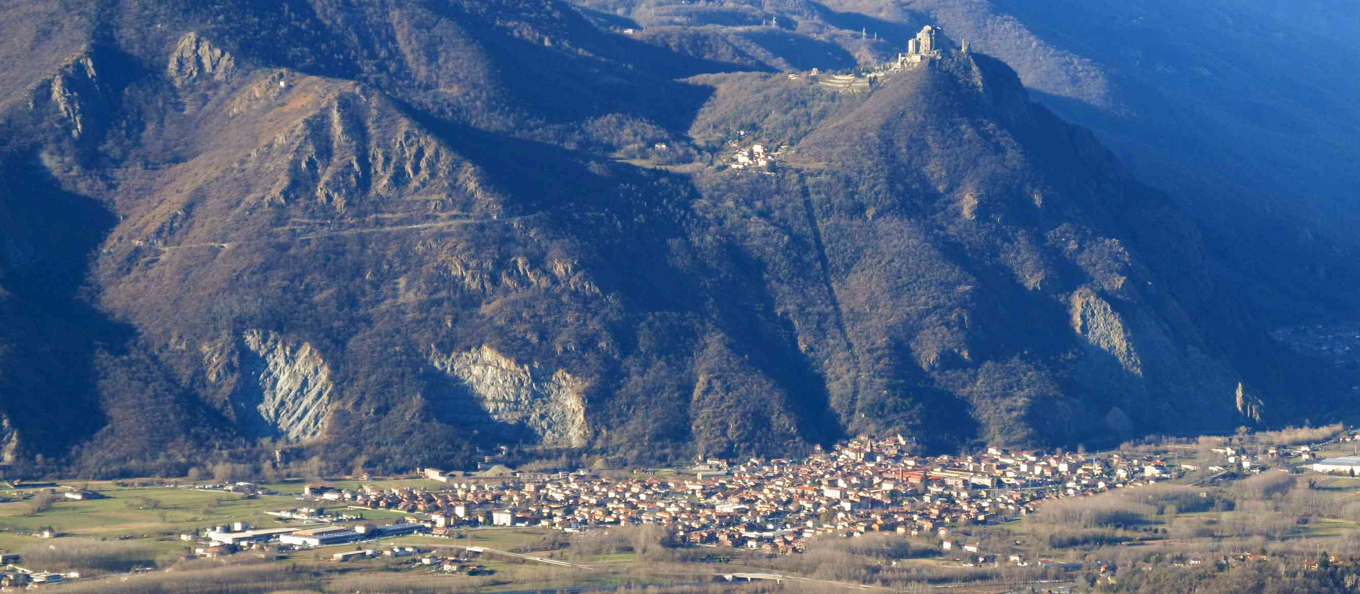 Sant'Ambrogio di Torino (TO, Italy) seen from Mount Musinè; on the right Sacra di San Michele abbey on Monte Pirchiriano